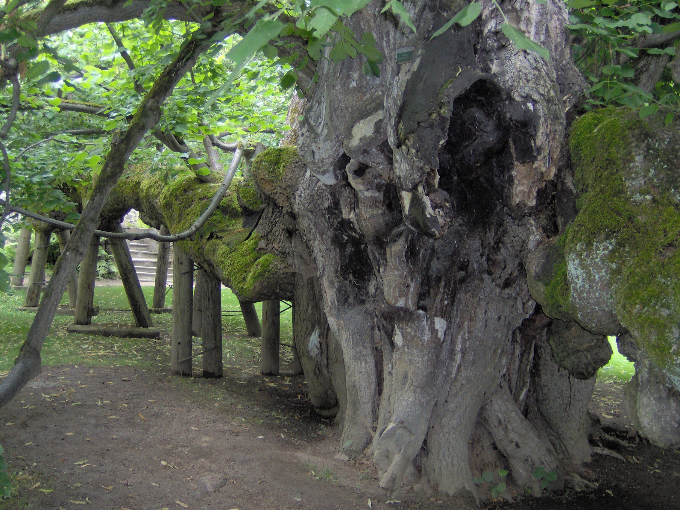 Tilia cordata in Kamenice nad Lipou, Pelhřimov District, Czech Republic